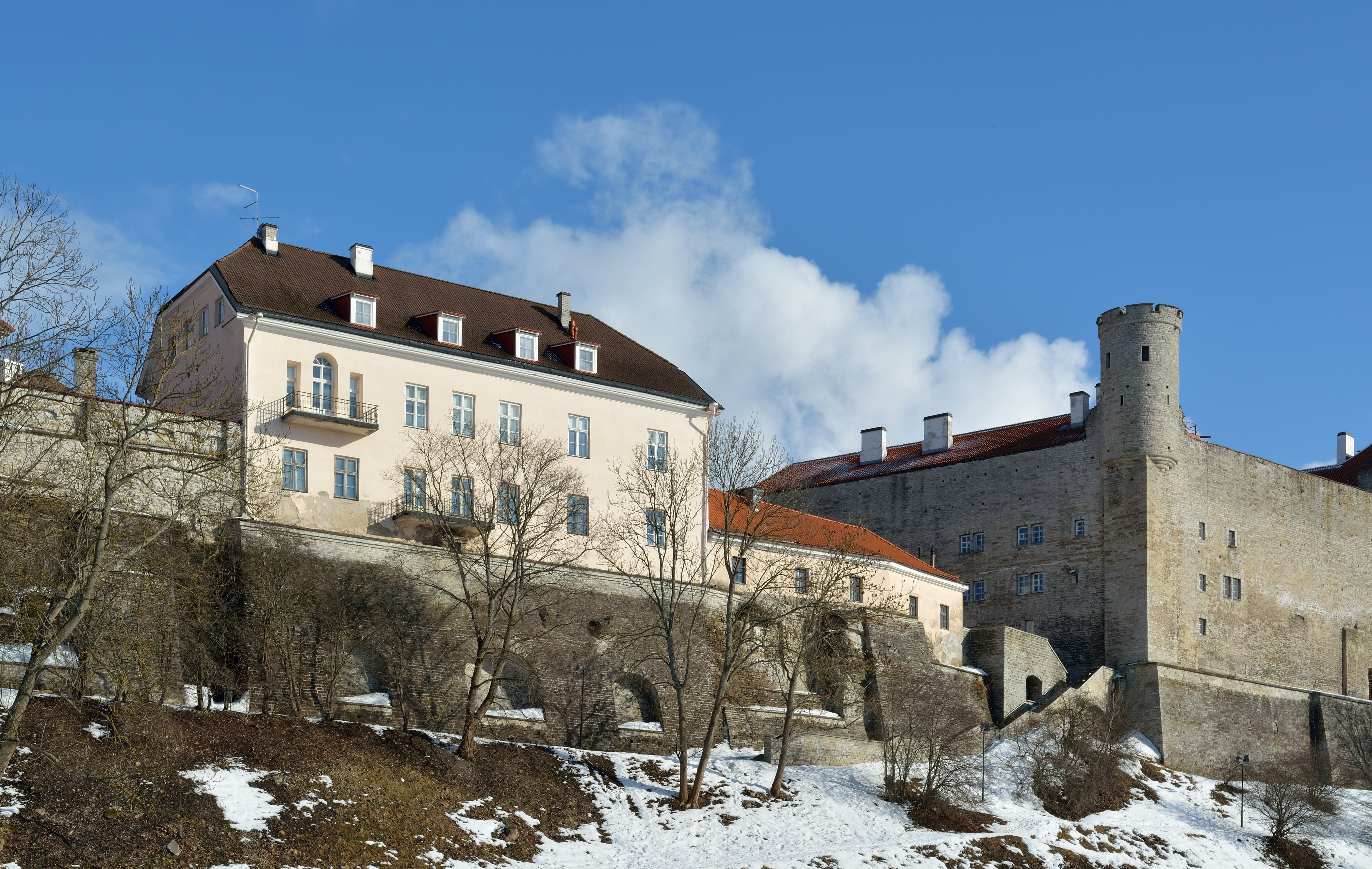 Office of the Embassy of Canada to Estonia in Tallinn (Toom-Kooli st 13) and the Pilsticker tower